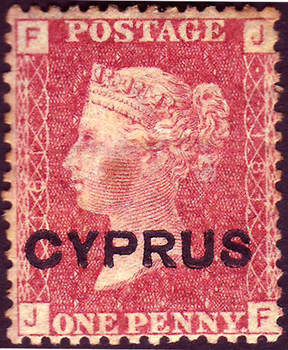 British 1880 1d red SG 2 Plate 181 overprinted Cyprus